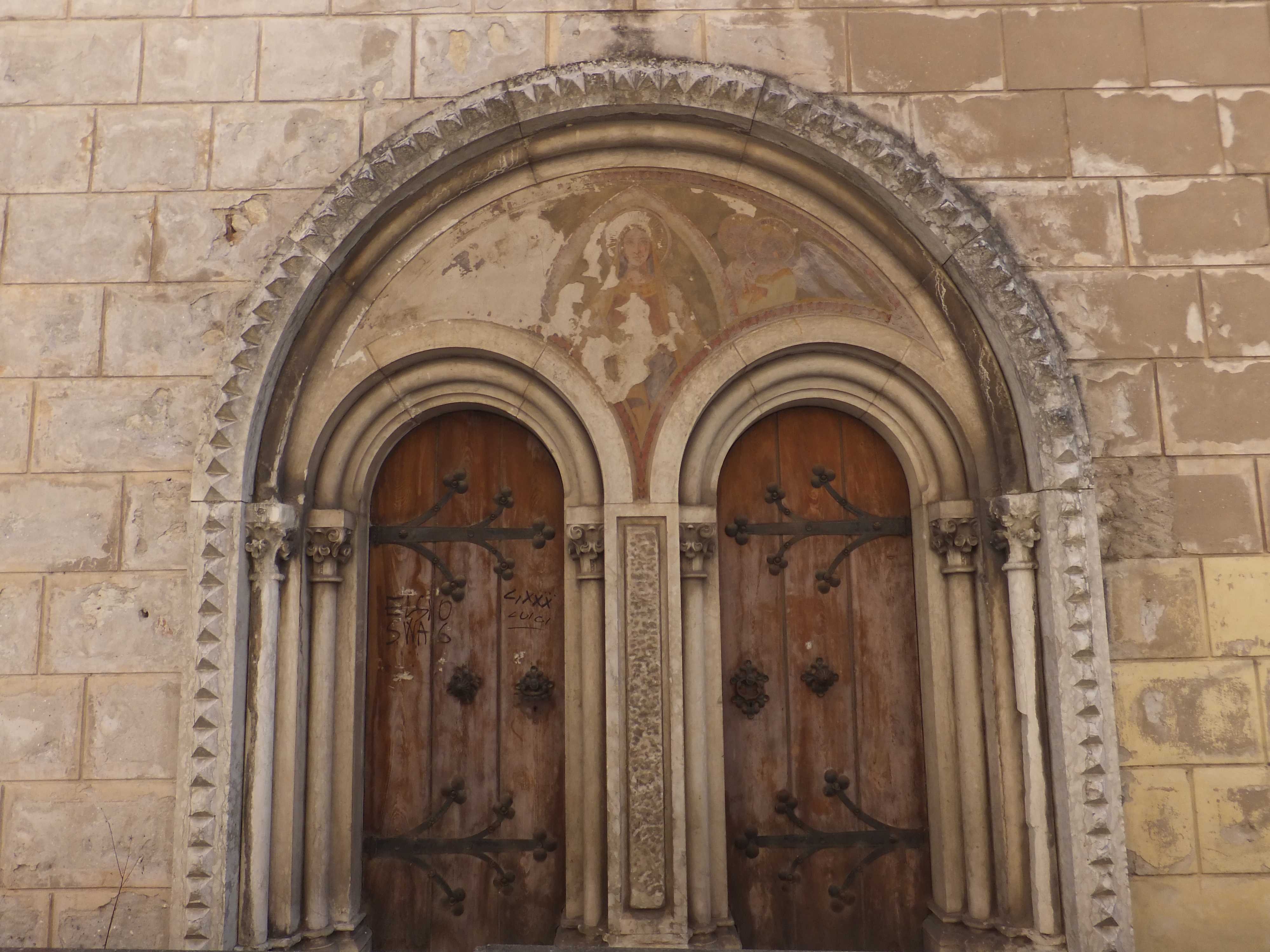 Trento, church of the Redeemer - Entrance portals